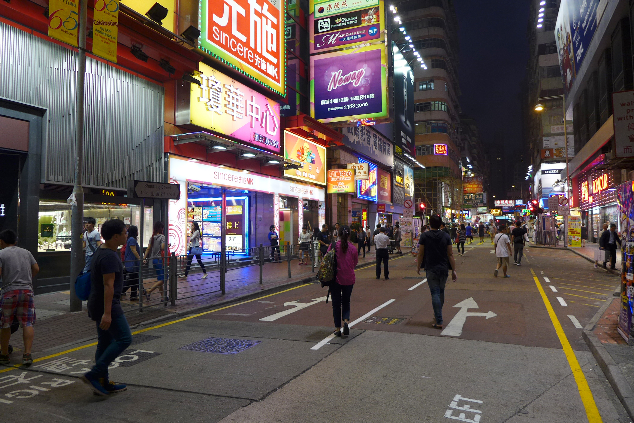 TShantung Street Night view